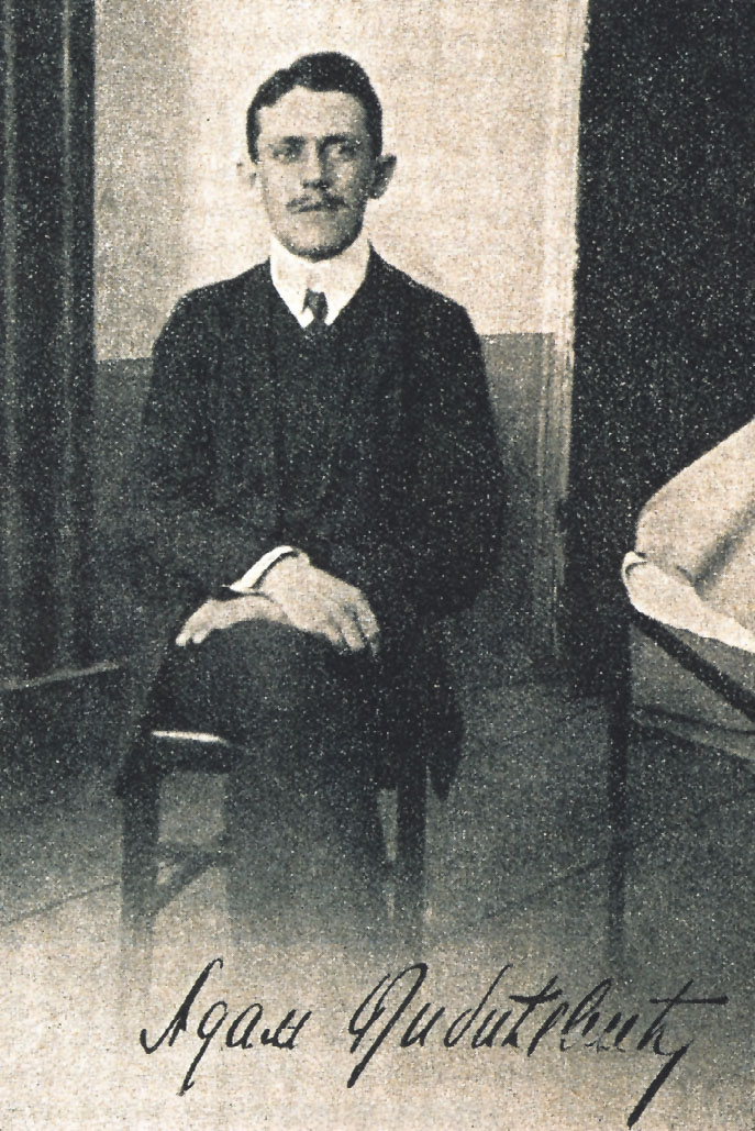 Portrait of Adam Pribićević, Serbian publicst and politicain from the first half of the 20th century.